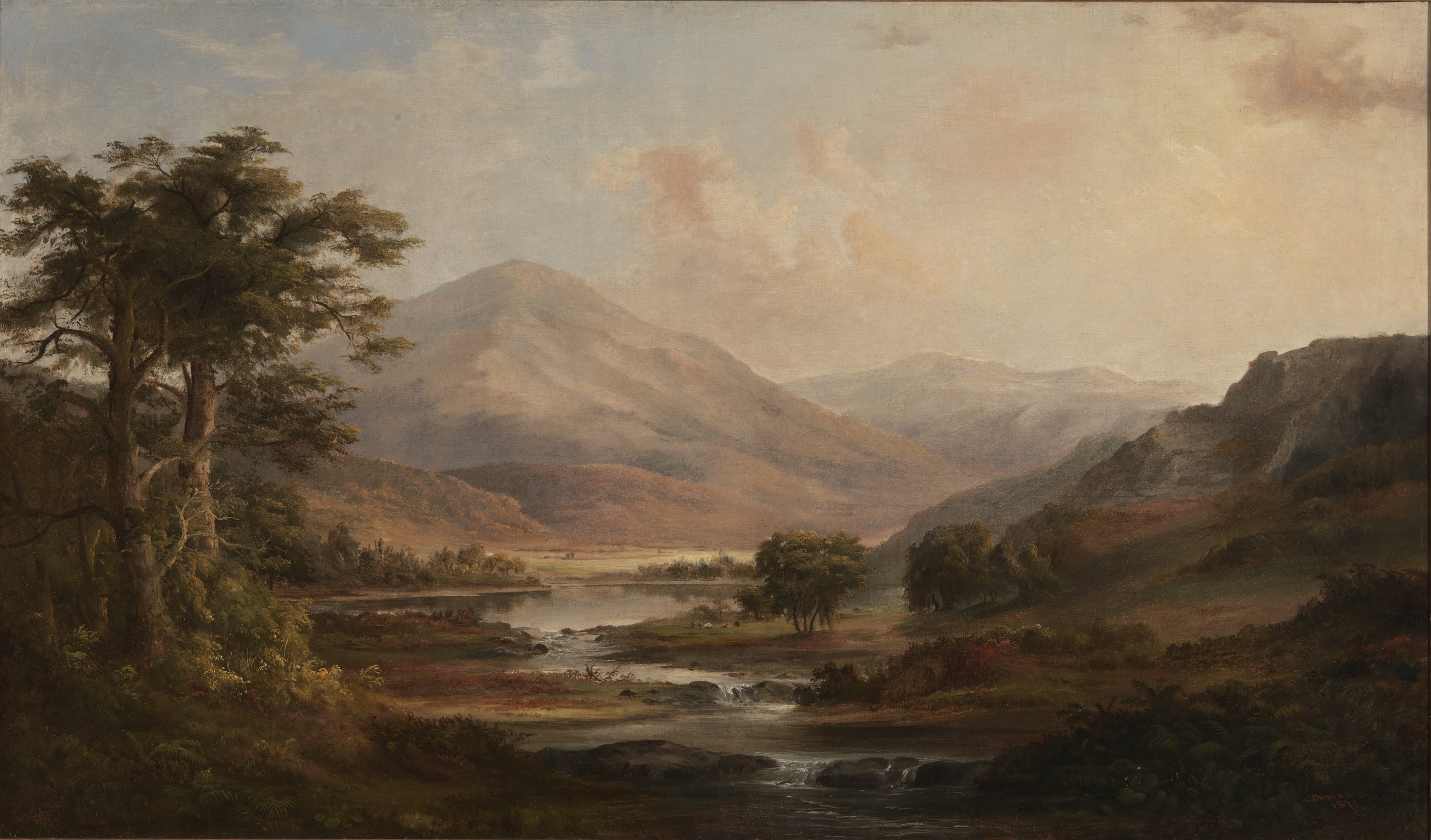 Scottish Landscape